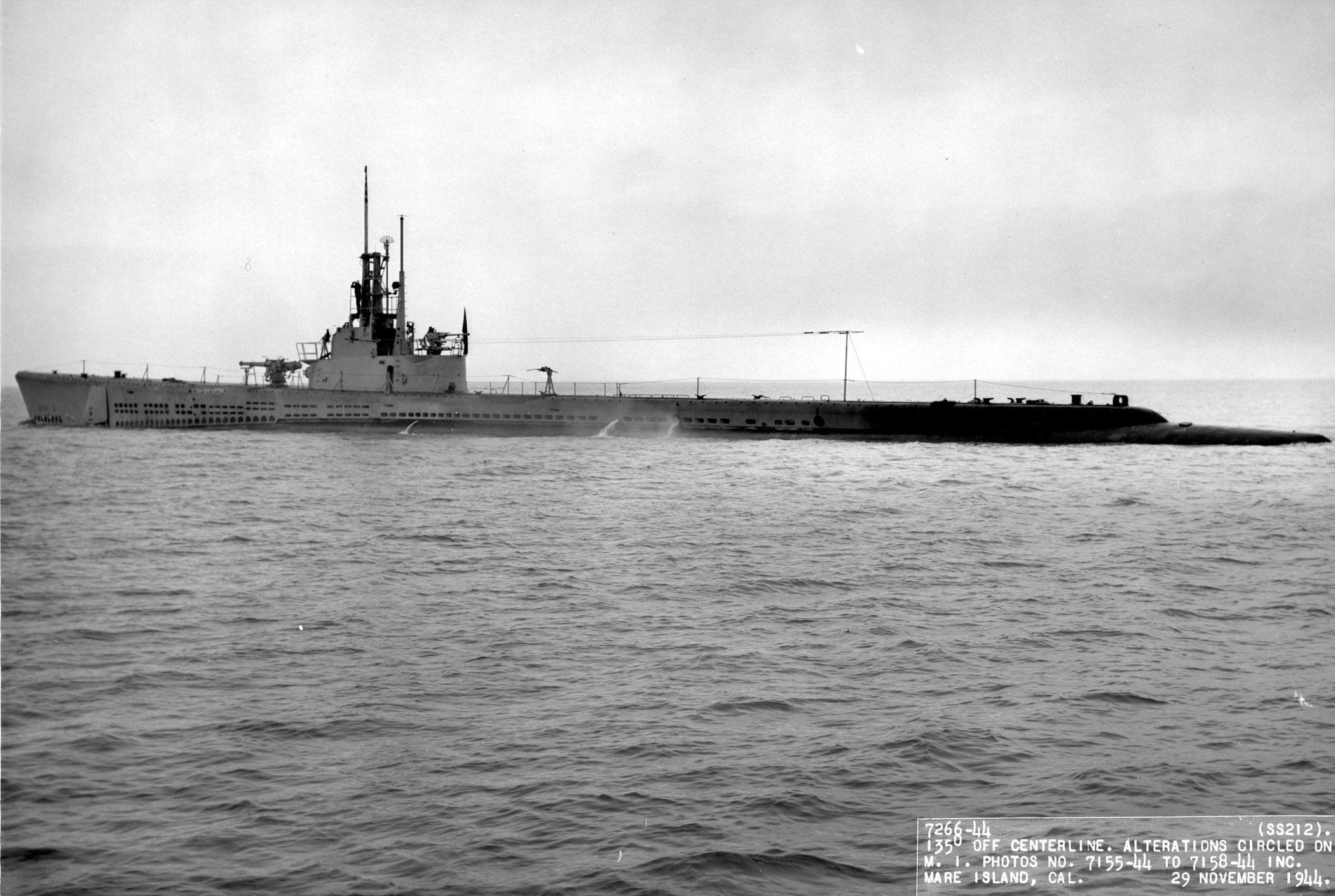 USS Gato (SS212); Gato (SS-212), off Mare Island Navy Yard, 29 November 1944. US Navy photo #7266-44, from the collections of the US Naval Historical Center